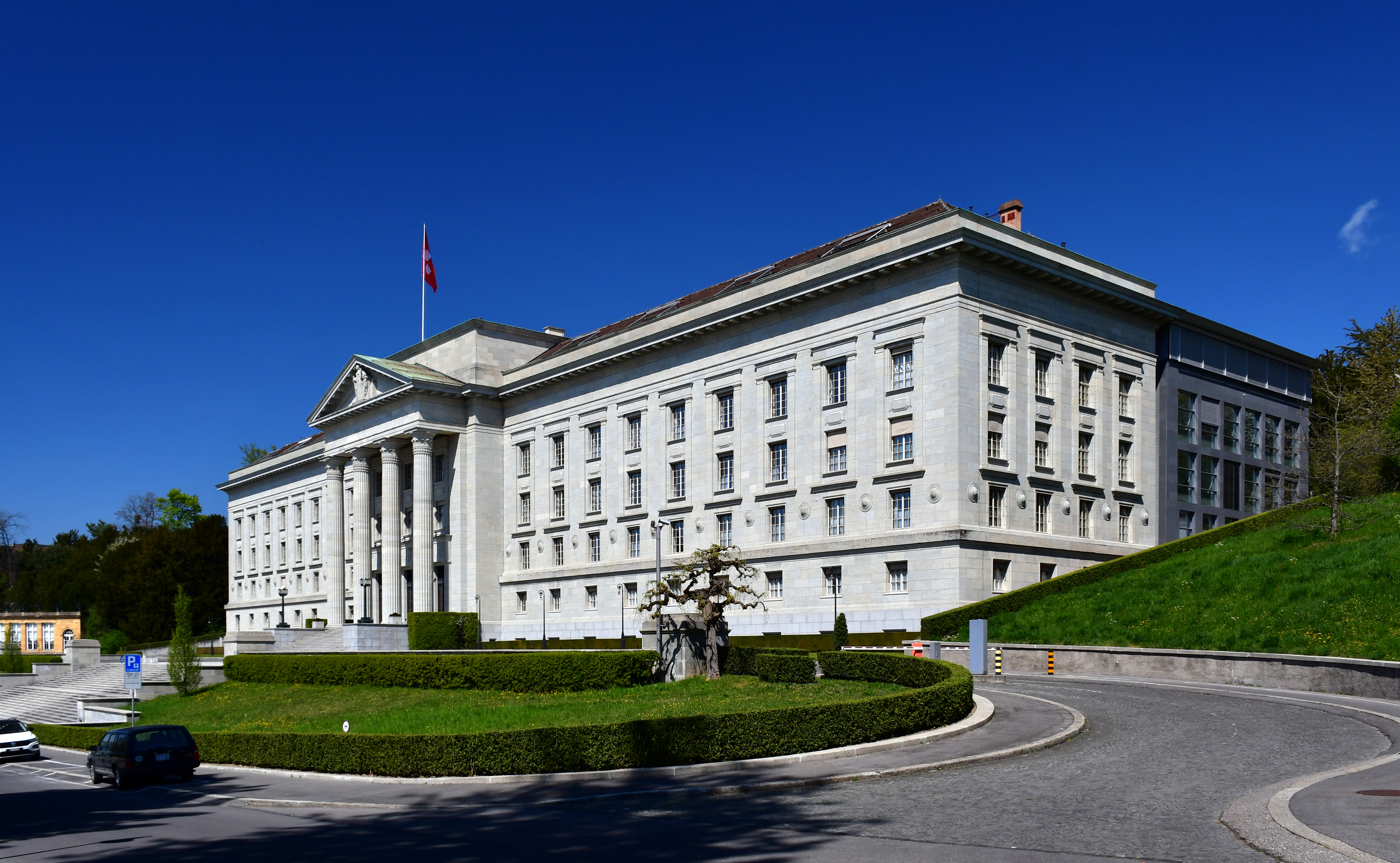 Federal Supreme Court of Switzerland (Lausanne)